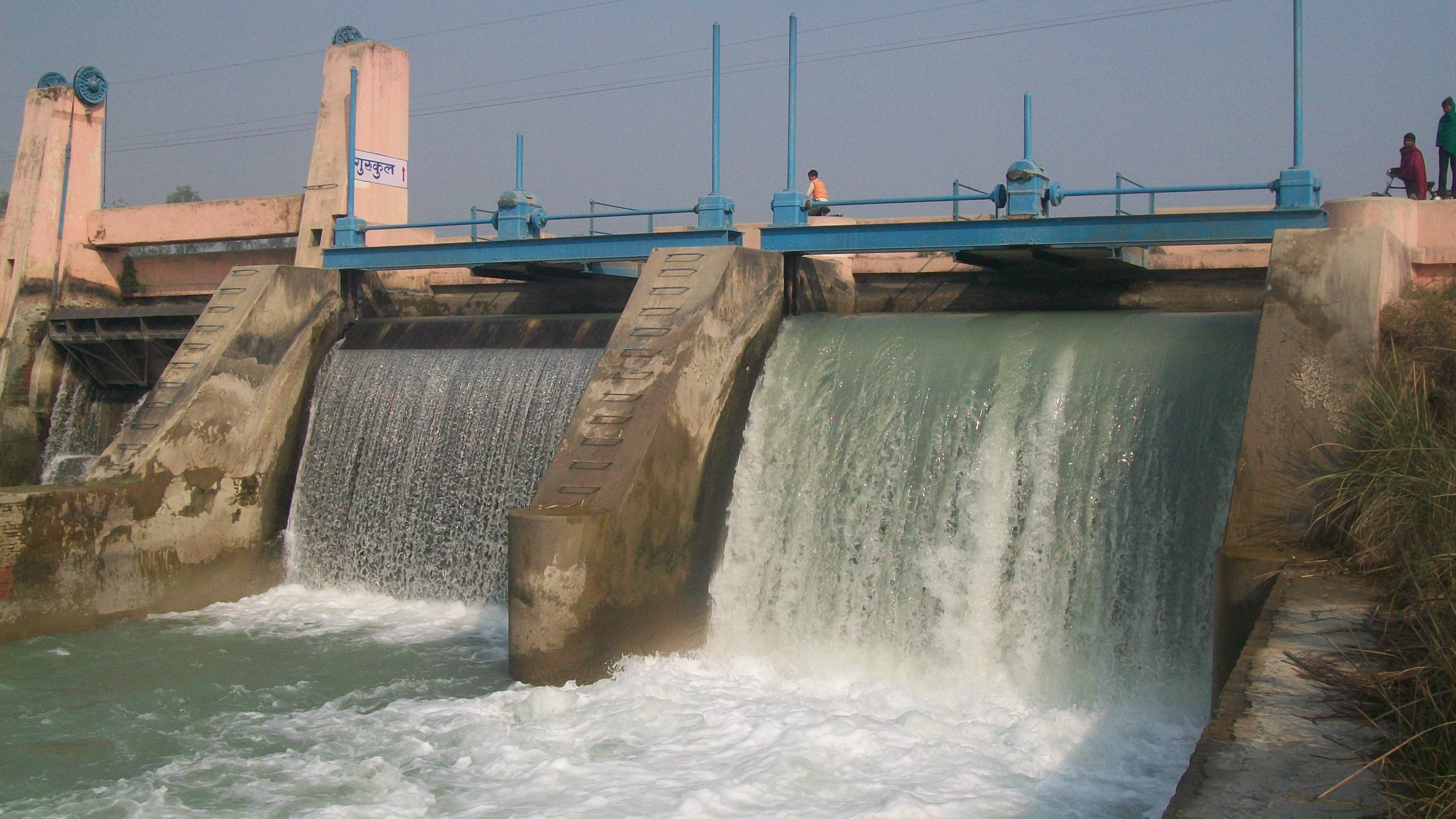 A small hydroelectric dam on the Ganges Canal at Nagla Kabir, UP, India